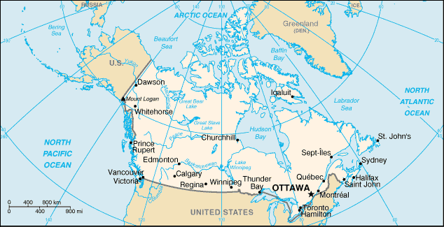 A map of Canada, showing major cities.